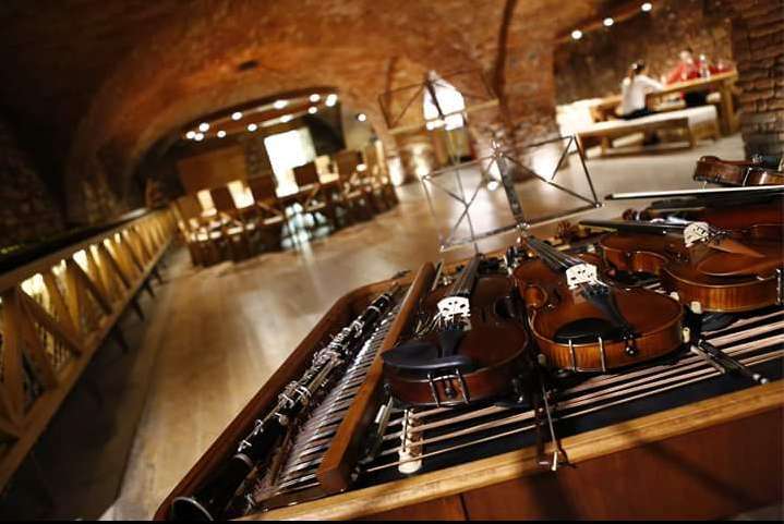 Moravian cimbalom music group Rozsocháč.